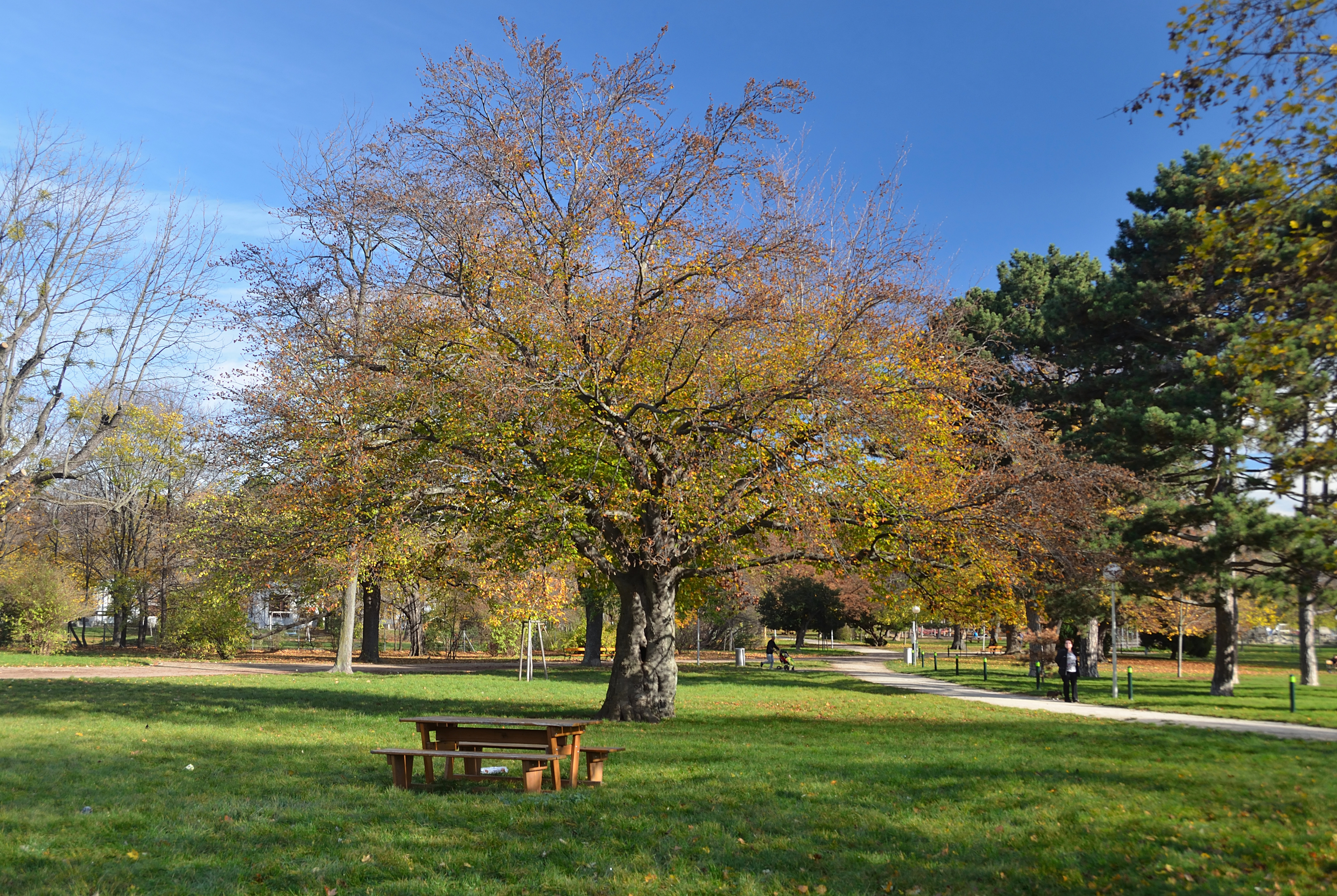 The Auer-Welsbach-Park is a park in Vienna, 15th district.